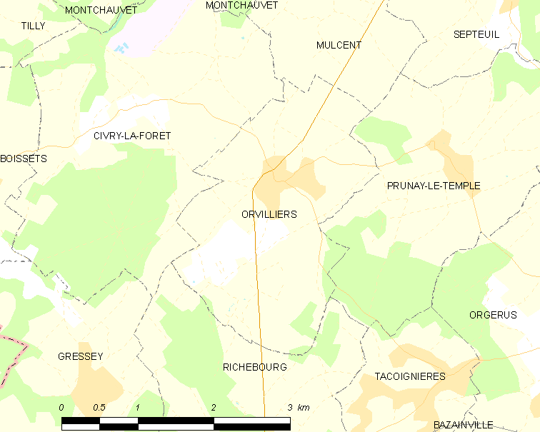 Map of French municipality Orvilliers